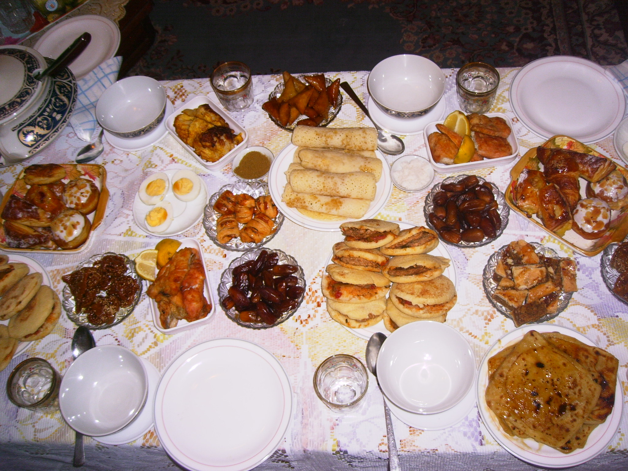 Traditional Ramadan meal